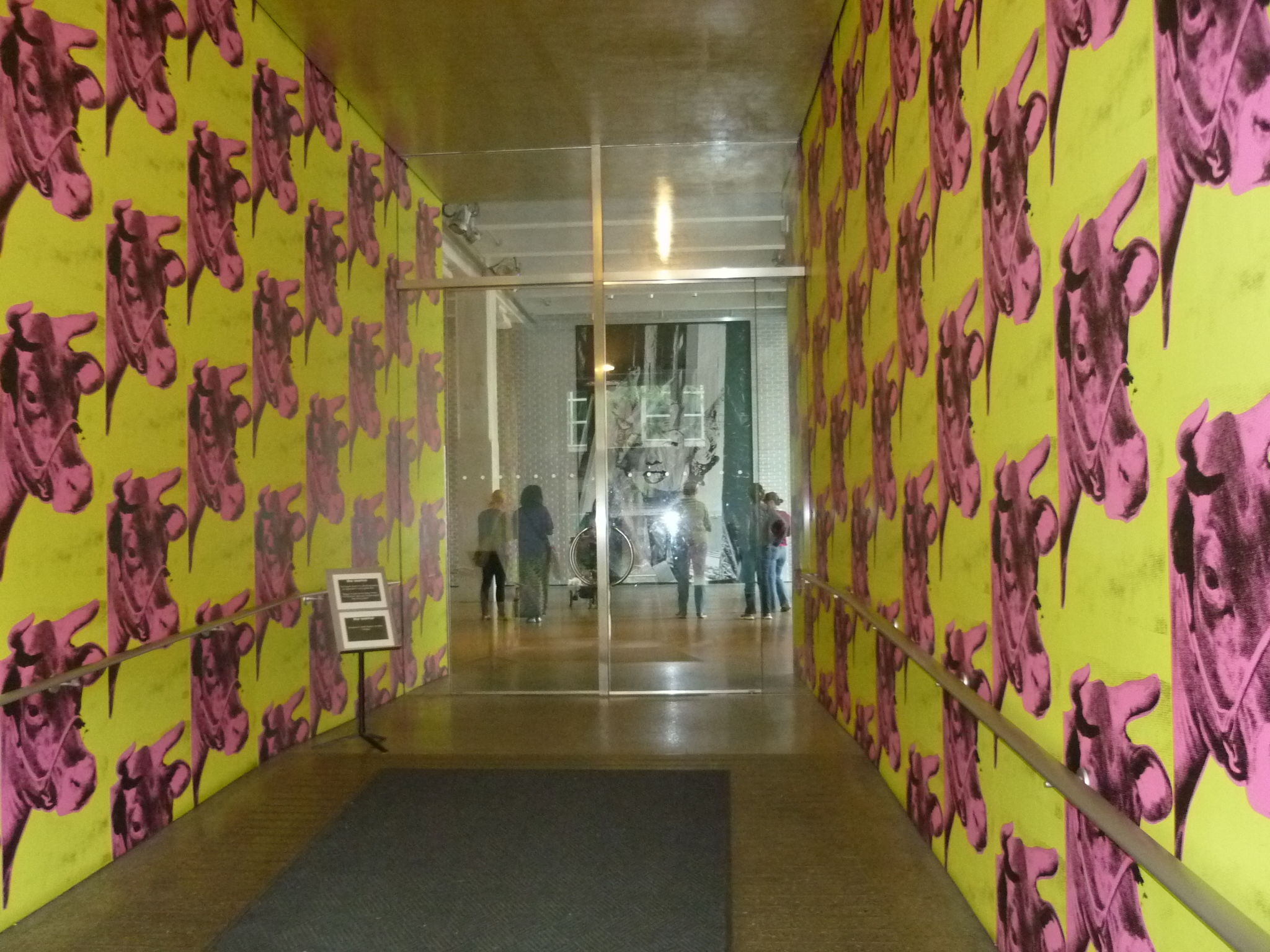 Andy Warhol Museum Hallway in Pittsburgh, PA.